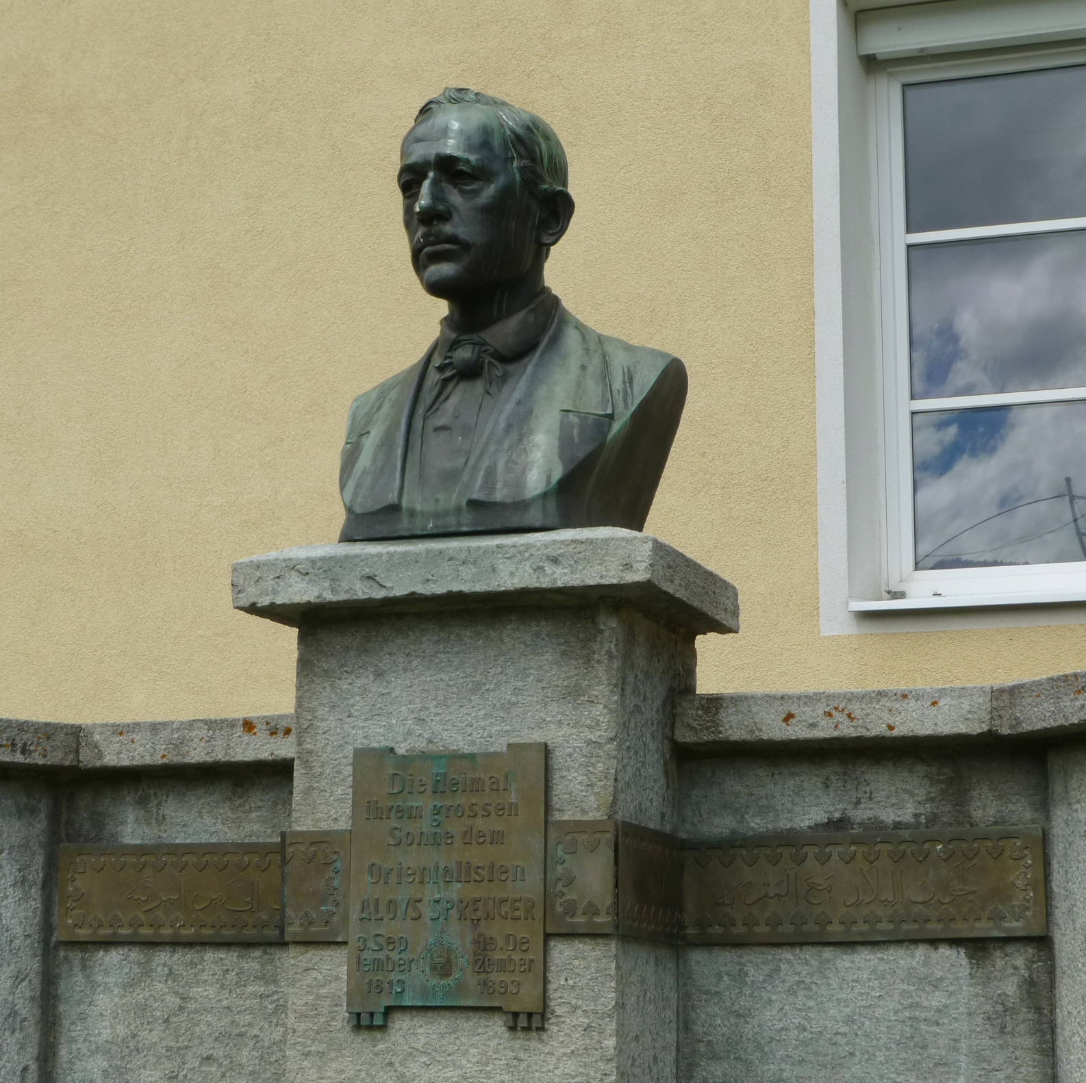 Bust for the Orientalist Aloys Sprenger, born in 1813 at Nassereith, Tirol, Austria. This media shows the remarkable cultural object in the Austrian state of Tyrol listed by the Tyrolean Art Cadastre with the ID 21199. (on tirisMaps, pdf, more images on Commons, Wikidata)